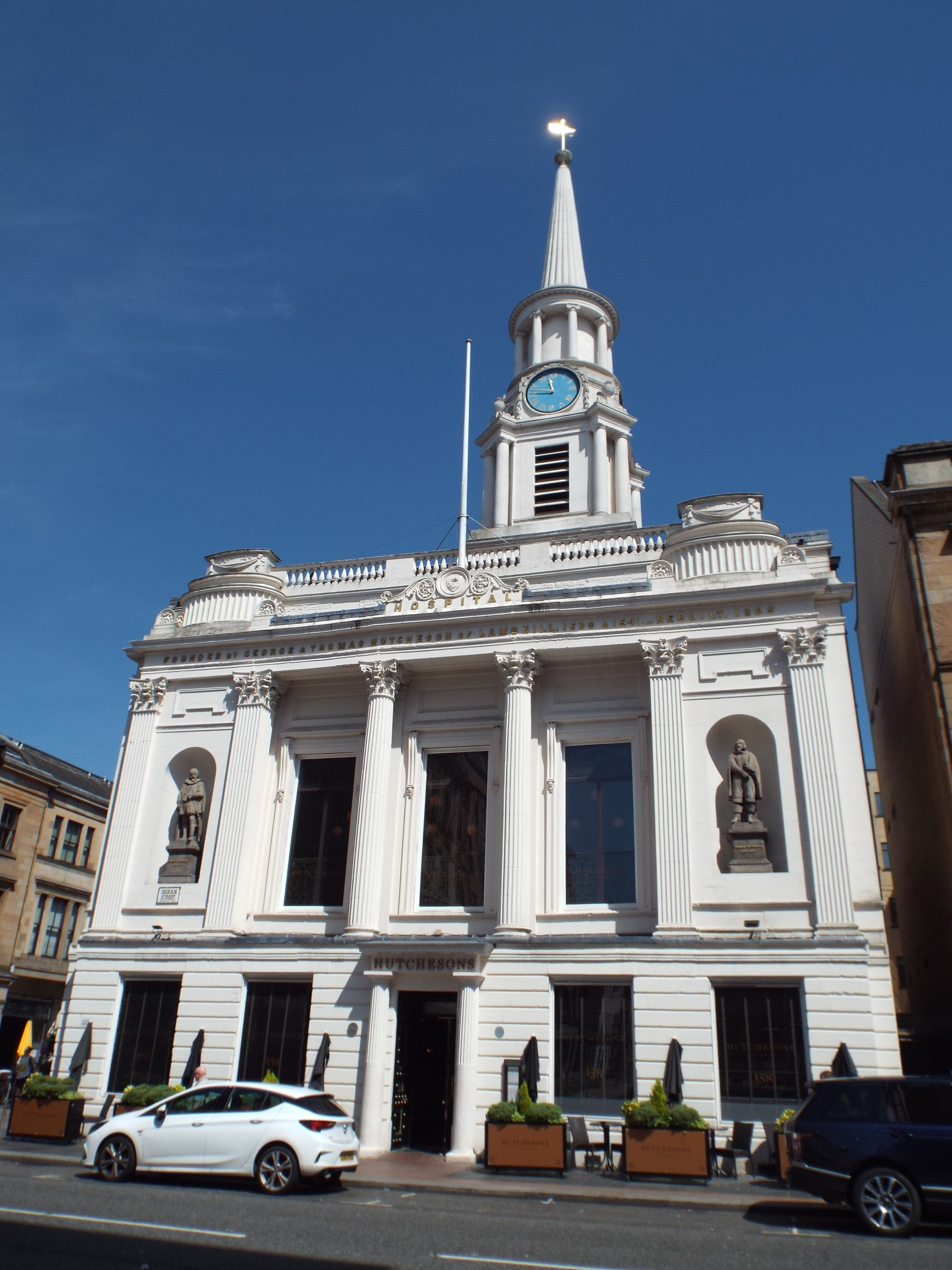 Hutchesons' Hall, Glasgow